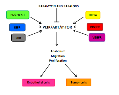 Mechanism of action of Rapamycin and its derivatives on tumor angiogenesis.